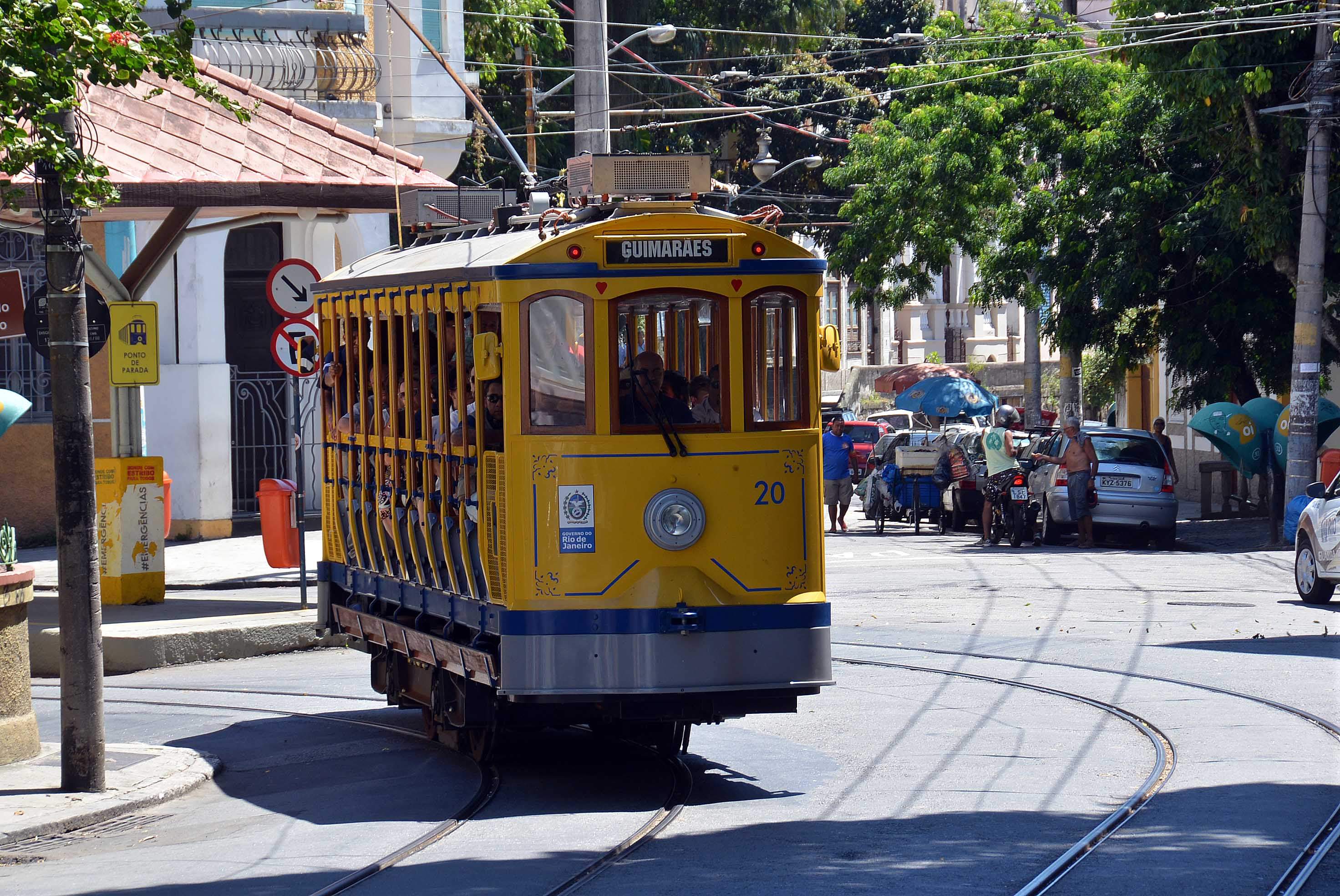 Tram leaving Largo do Curvelo, en route to Largo do Guimarães, on the Santa Teresa Tramway, in the Santa Teresa neighbourhood of Rio de Janeiro.